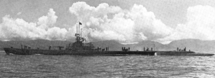 USS_Bream; Bream (SS-243) returning to base with periscopes raised and battle flags flying, June 1945. Images from "U.S. Warships of World War Two". US Navy photo, courtesy of Mike Green.